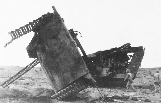 Like some recently killed prehistoric monsters, these LVTs lie on their sides, completely destroyed on the beach by Japanese mines and heavy artillery fire.